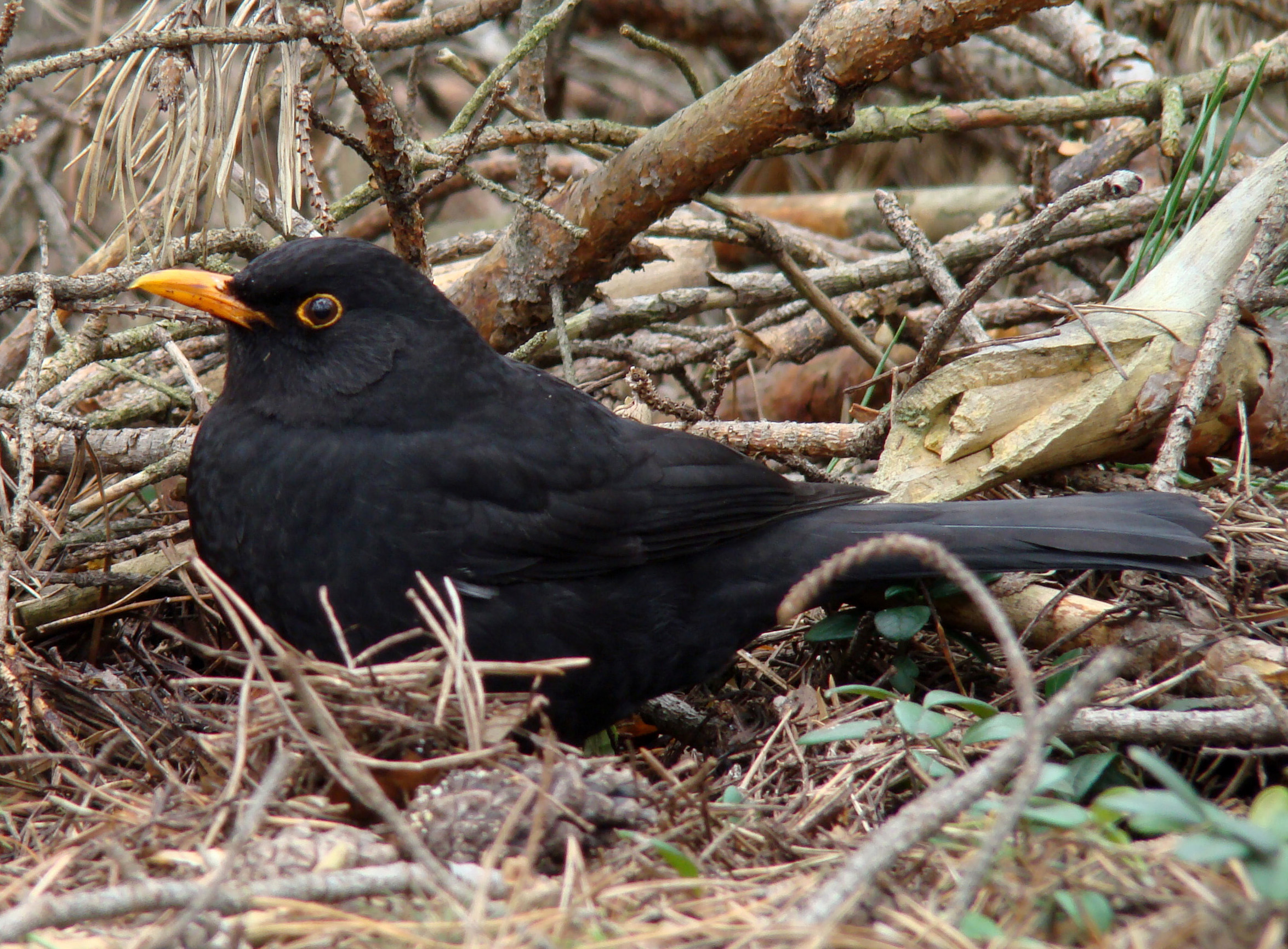 Blackbird (Turdus merula)